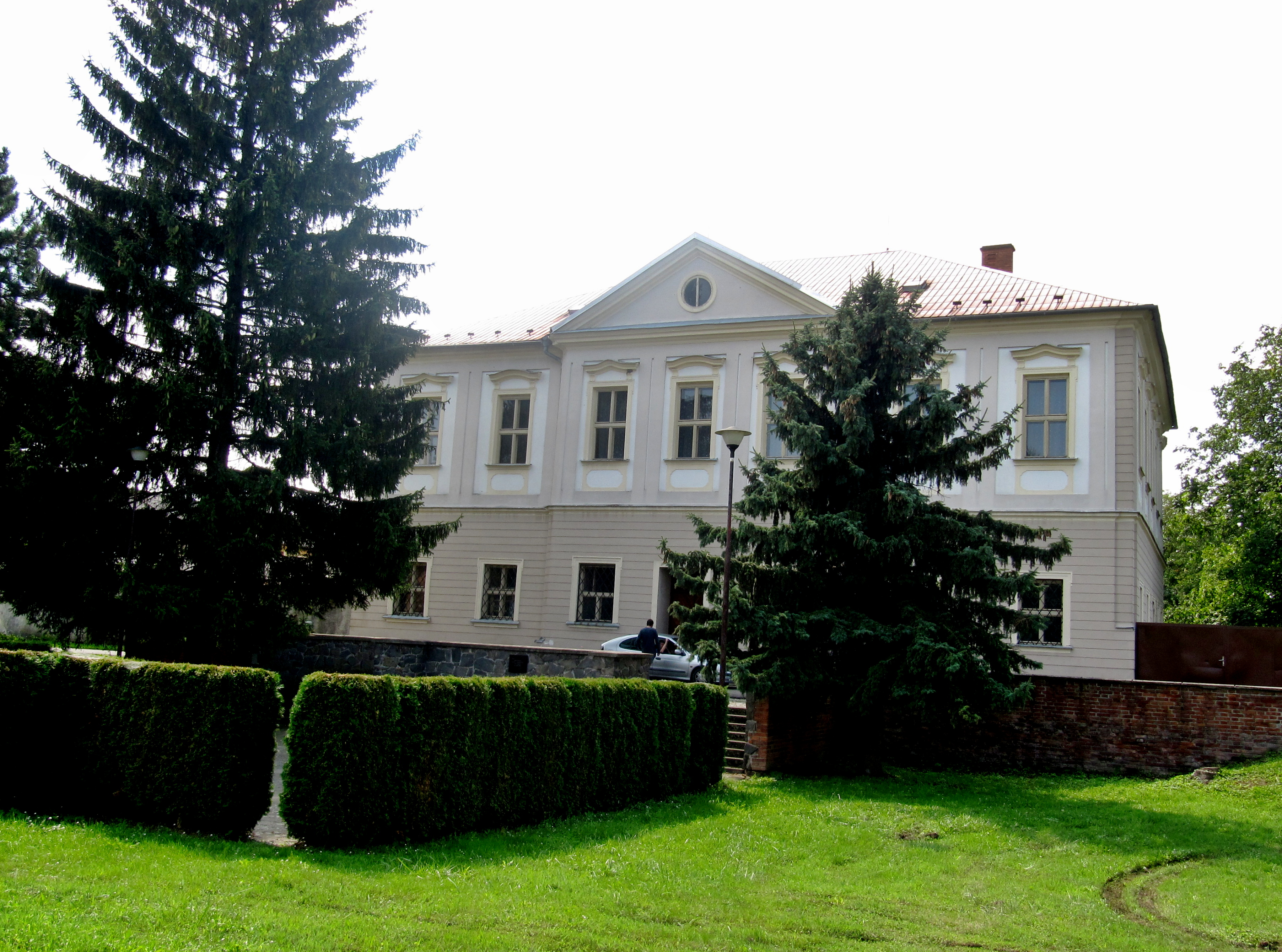 Polkovice, Přerov District, Czech Republic. Castle.